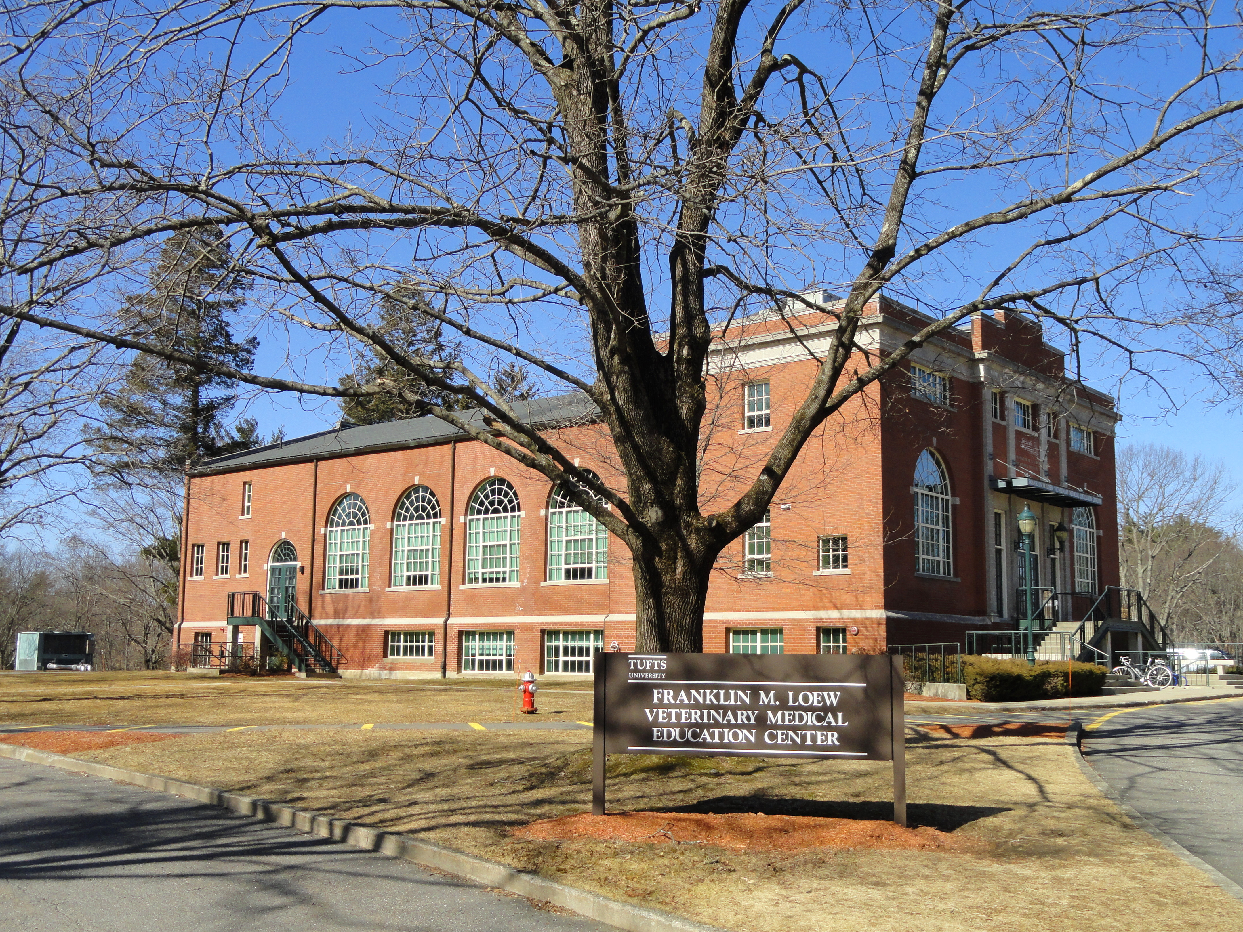 Cummings School of Veterinary Medicine at Tufts University, 200 Westboro Road, North Grafton, Massachusetts, USA.